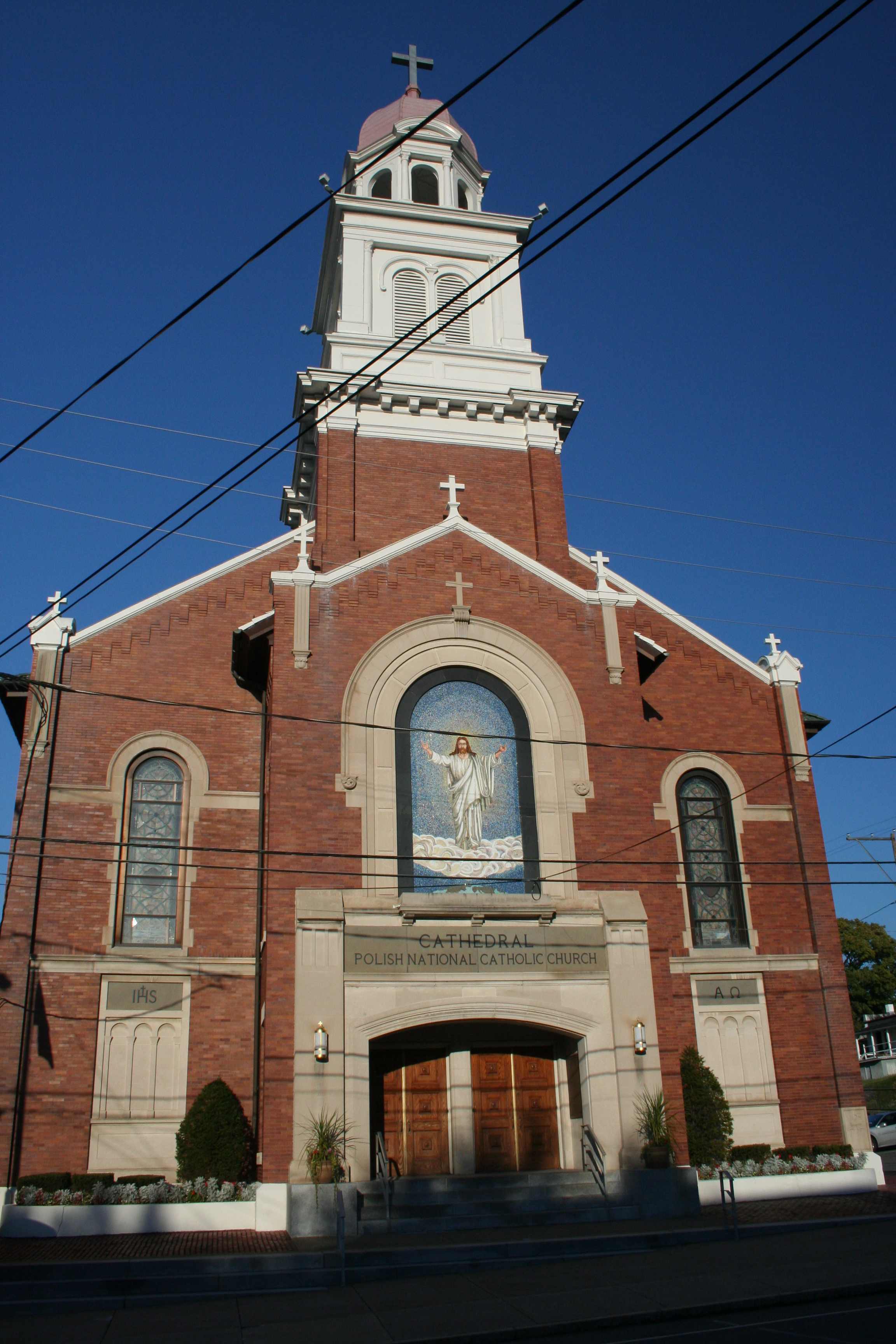 St. Stanislaus Cathedral in Scranton, Pennsylvania. St. Stanislaus serves as headquarters for the Polish National Catholic Church.